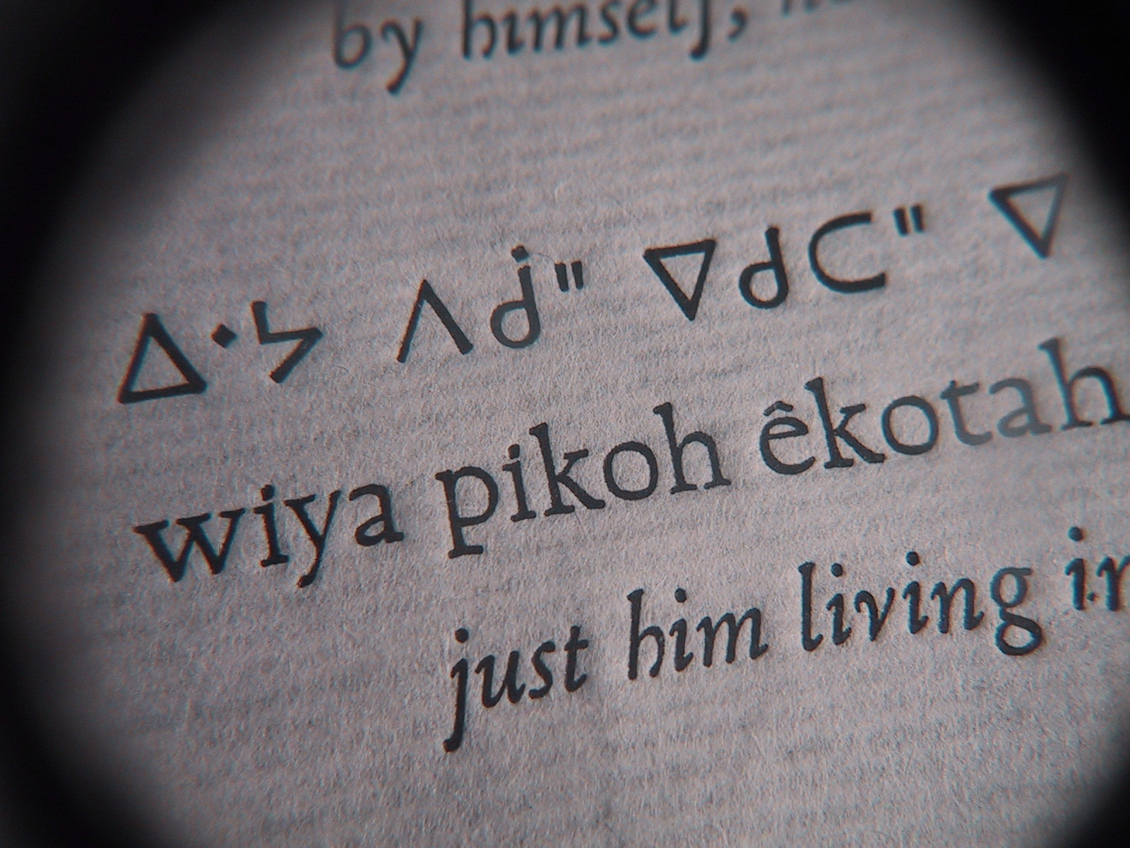 A close up of a proof from a freshly made Cree-language typeface.